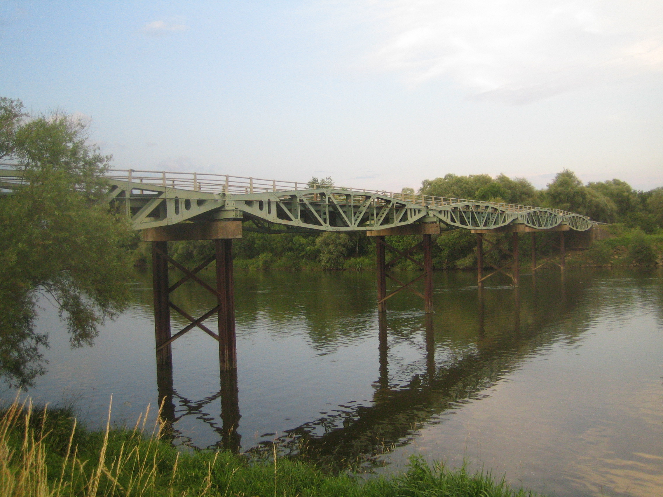 Bridge over river Moselle formed with assembled 'Whale' pier elements. This bridge is located on road D56 between Cattenom and Kœnigsmacker (Moselle). These piers were the floating roadways that connected the Spud pier heads to the land in a Mulberry harbour, a type of temporary harbour developed in World War II to offload cargo on the beaches during the Allied invasion of Normandy.